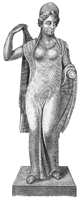 Roman statuette of bronze from Swedish Iron age, found on Öland, Sweden